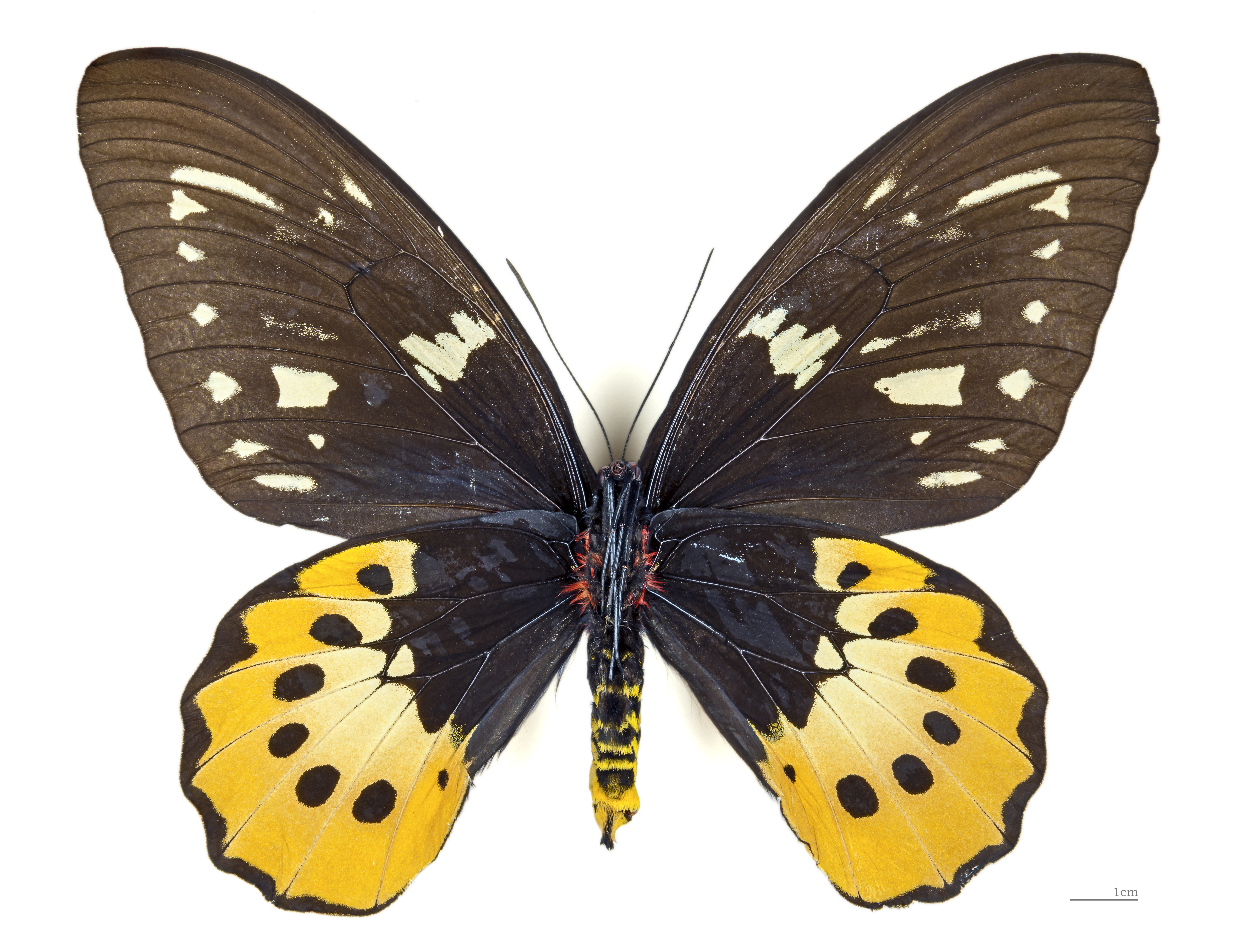 Ornithoptera goliath supremus ♀ - △ Ventral side Gumi Village, Lower Watut, Morobe Province, Papua New Guinea